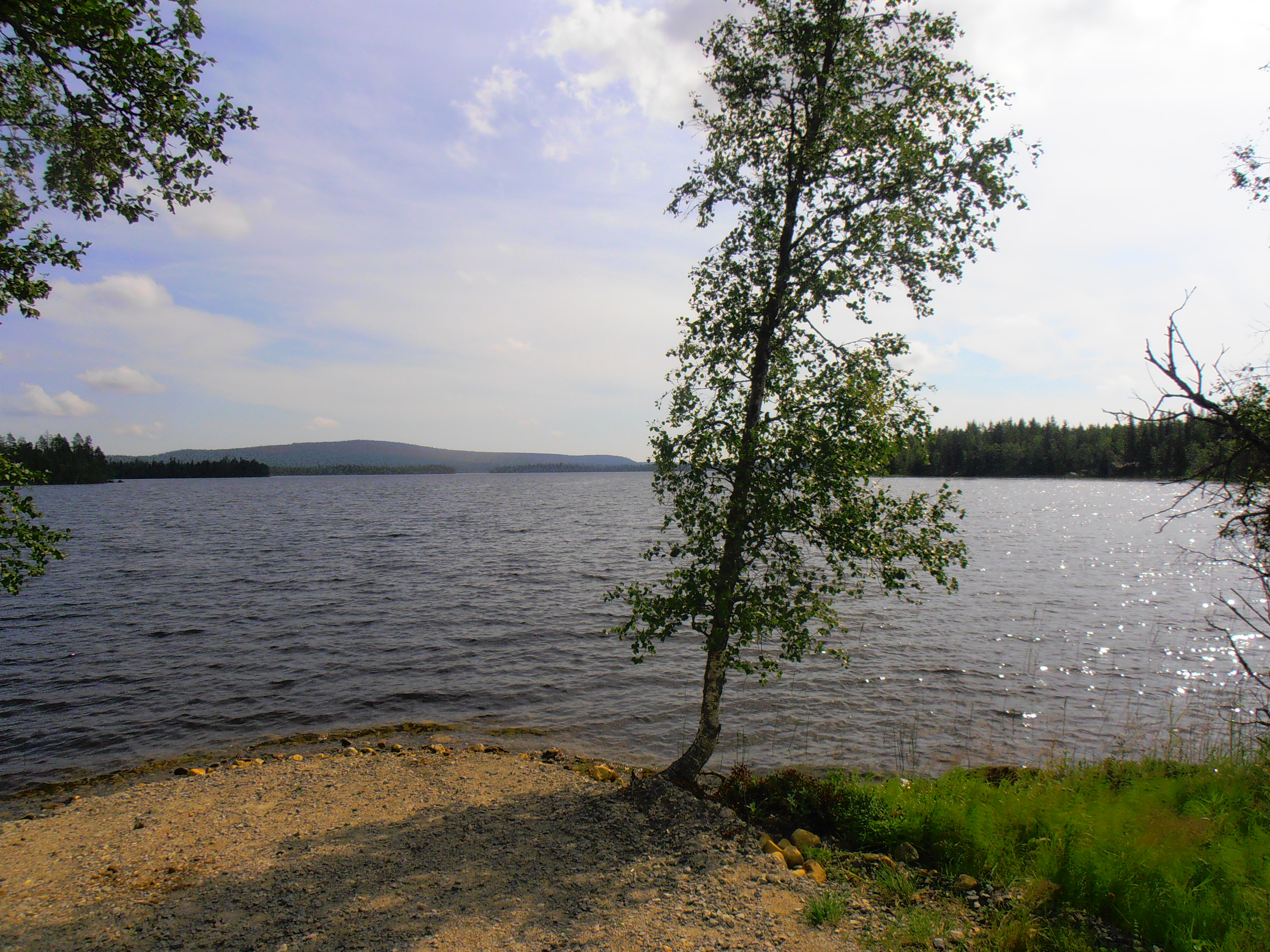 Storsaivis lake, Gällivare